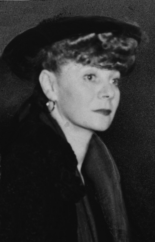 Helen Tamiris from a larger photo of her with Rodgers and Hammerstein and Irving Berlin, watching auditions on stage of the St. James Theatre